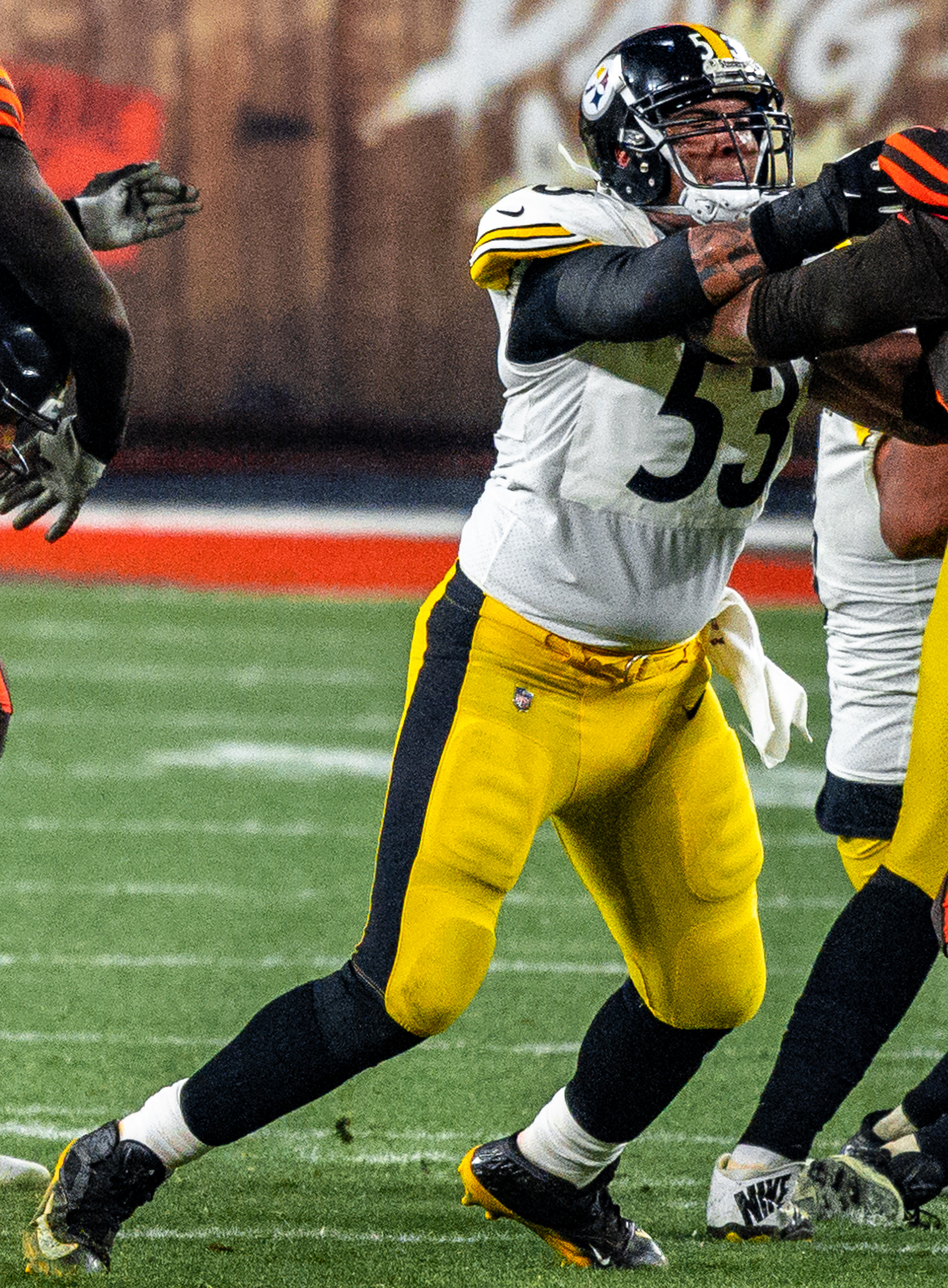 Steelers vs Browns 2019